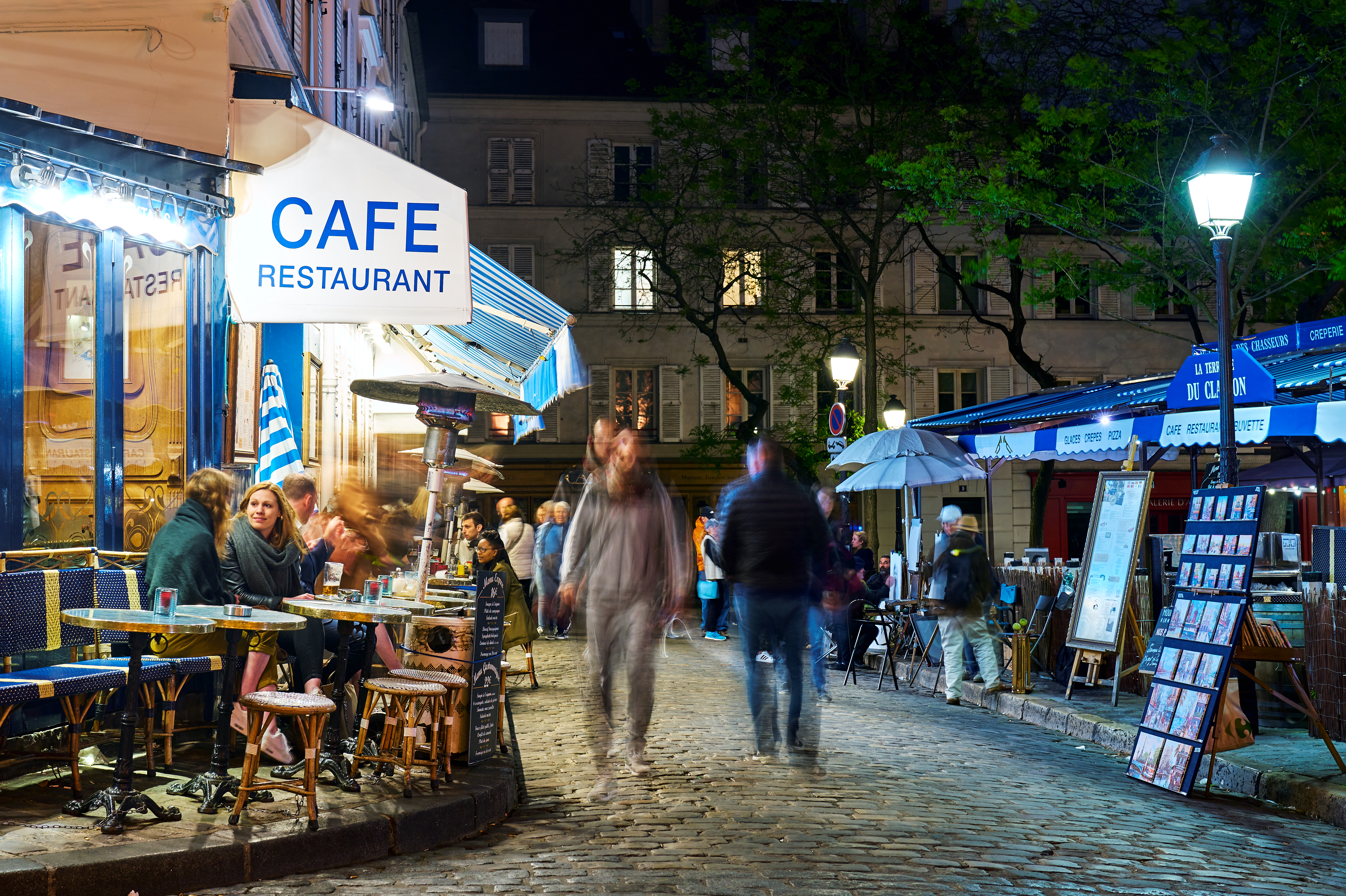 Night scene in Montmartre, near Sacre Coeur Basilica